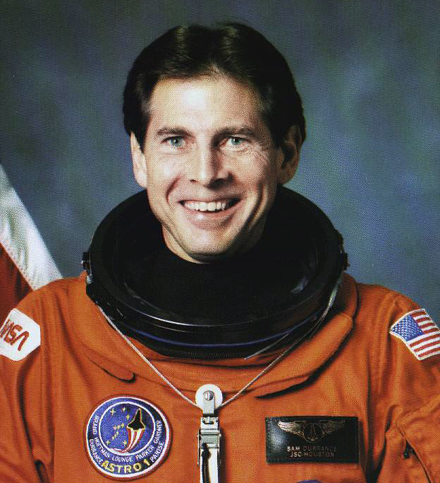 portrait astronaut Samuel Durrance